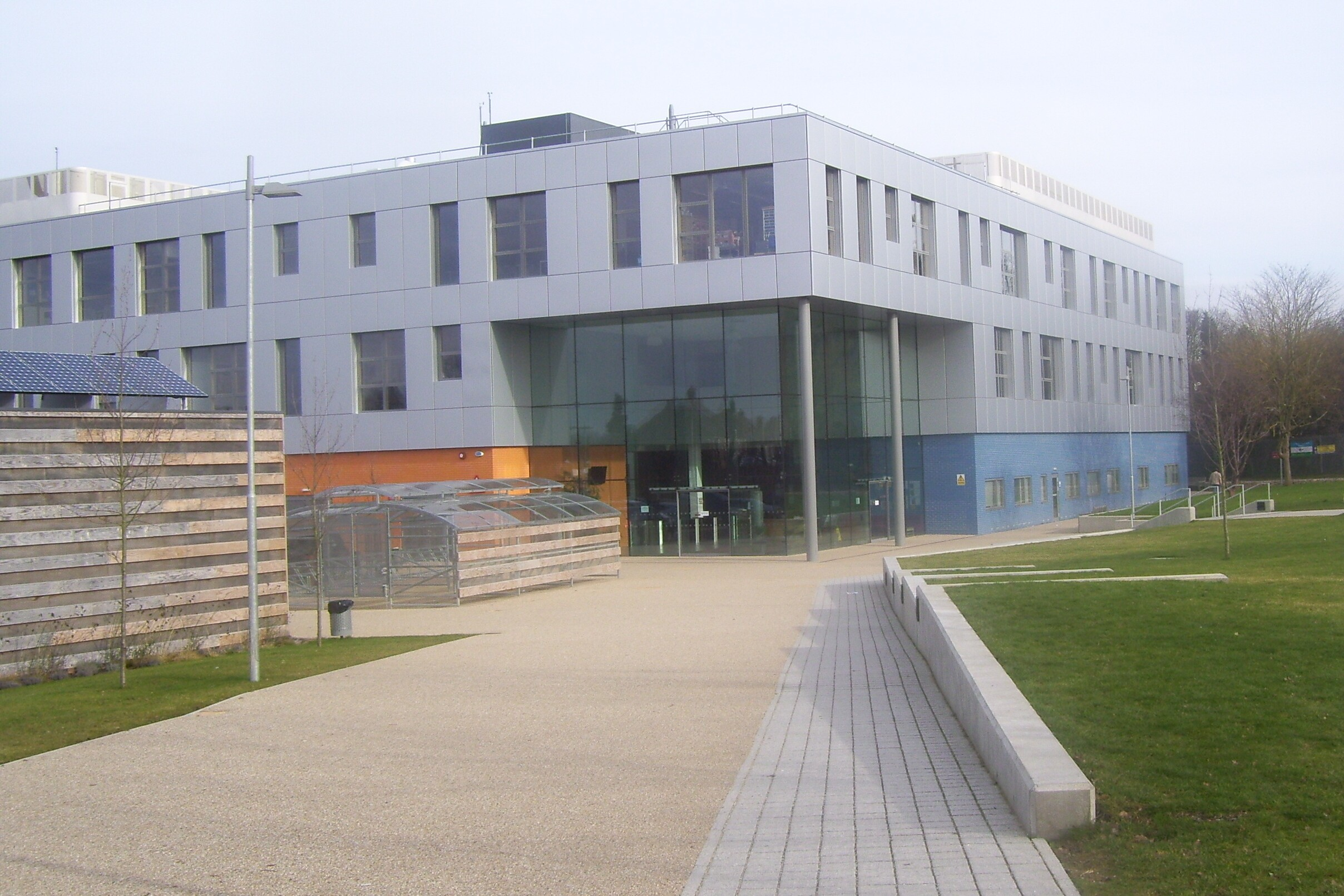 Chessington Community College - New Building The architect was clearly inspired by a cornflakes packet, The old buildings were demolished in 2005.